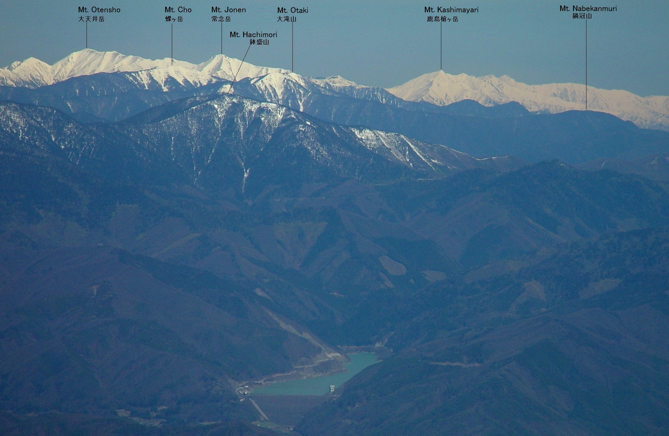 Mount Hachimori, Misogawa Dam and Jonen Mountains seen from Mount Mugikusa (Mount Kisokoma) in Japan. (with note)